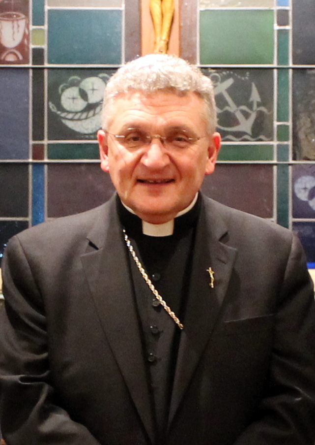 The Most Reverend David A. Zubik, the Bishop of the Roman Catholic Diocese of Pittsburgh.